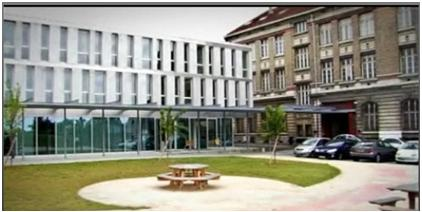 cour de l'Institut supérieur de mécanique de Paris (Supméca), 3 rue Fernand Hainaut, Saint-Ouen, Seine-Saint-Denis, France.